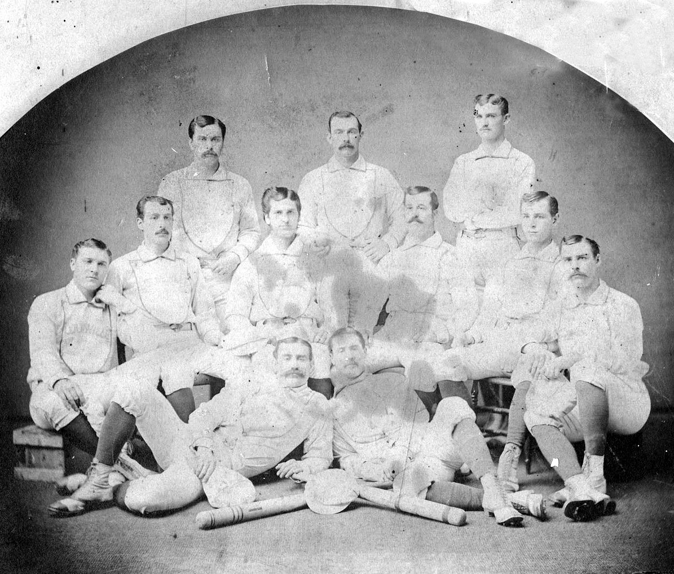 1876 Louisville Grays baseball teamBack row, L-R: Scott Hastings, Jim Devlin, Pop SnyderMiddle row, L-R: John Carbine, Bill Hague, Chick Fulmer, Jack Chapman, Joe Gerhardt, Art AllisonFront row, L-R: George Bechtel, Johnny Ryan